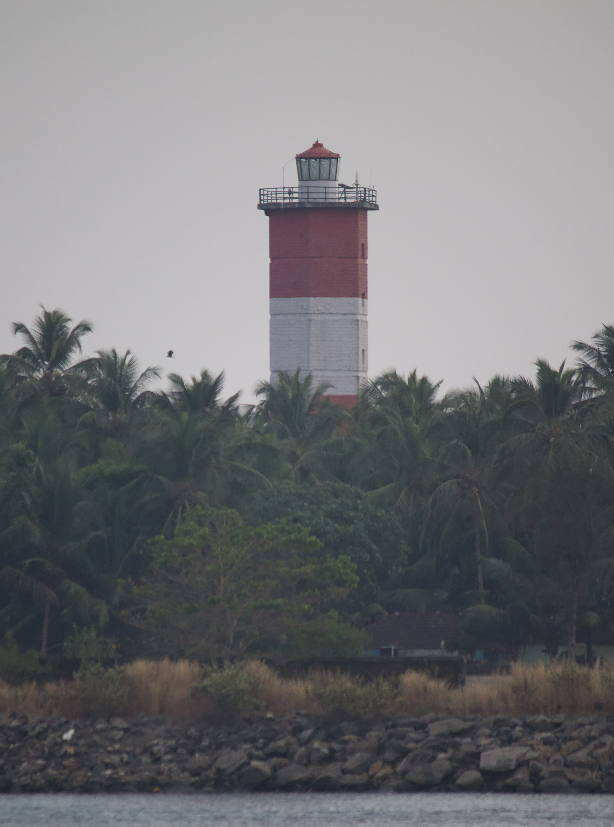 the light house at bepur chliyam. a sight from bepur pulimoot